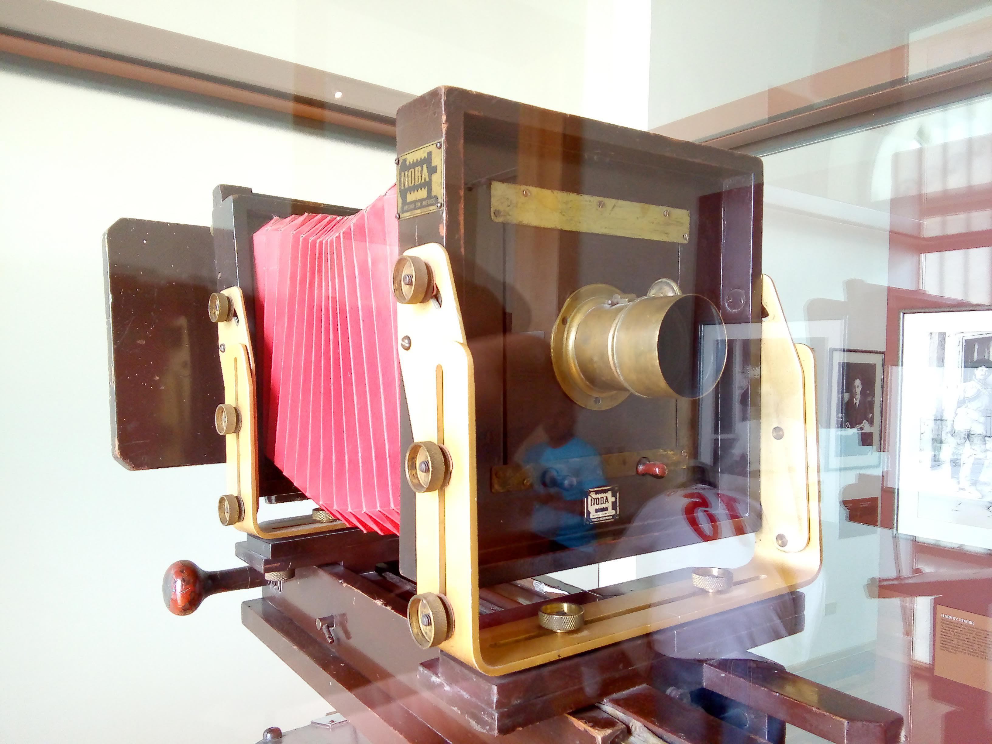 NOBA studio camera by Espino Barros e Hijos. Taken in Museo de la Revolución en la Frontera, Ex Aduana de Ciudad Juárez.